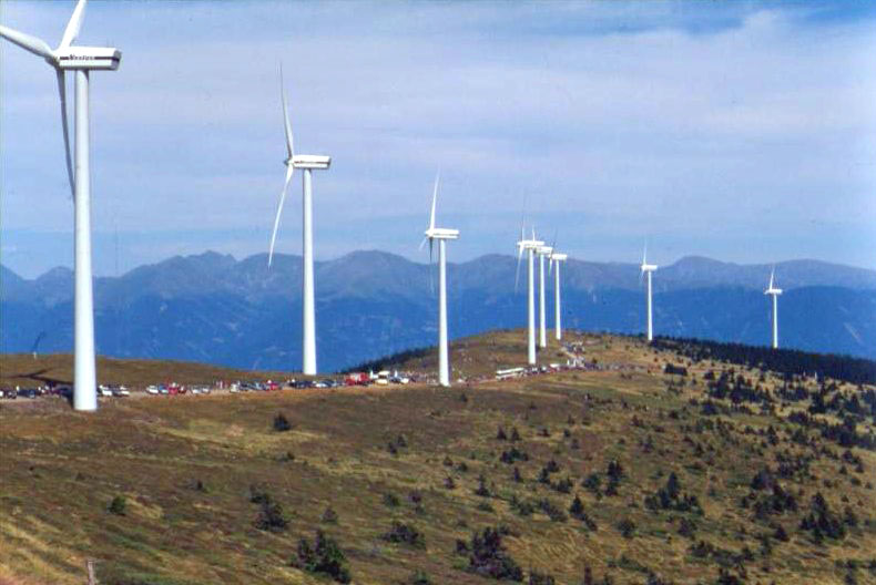 Tauernwindpark Oberzeiring, Styria, Austria